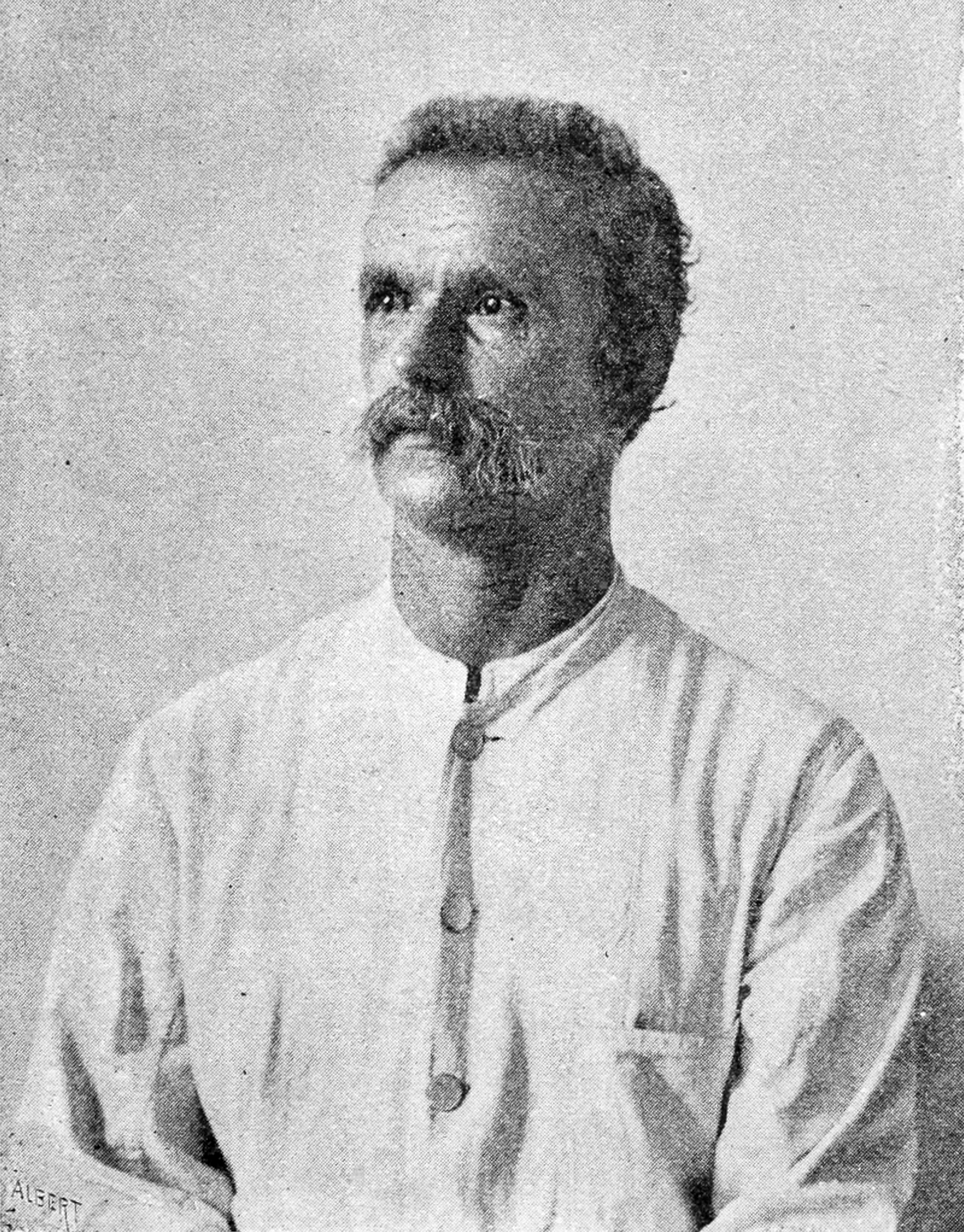 Gaetano Casati